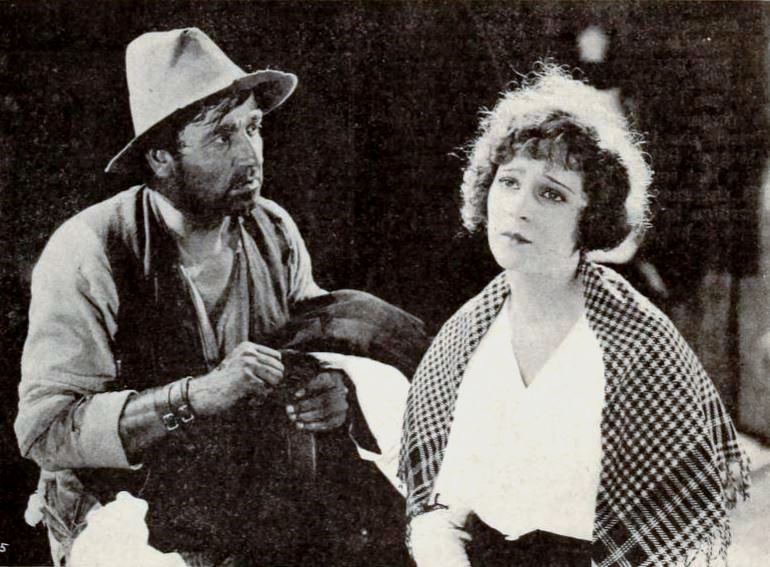 Still from the American western film The Sagebrusher (1920) with Noah Beery and Marguerite De La Motte, on page 77 of the February 14, 1920 Exhibitors Herald.